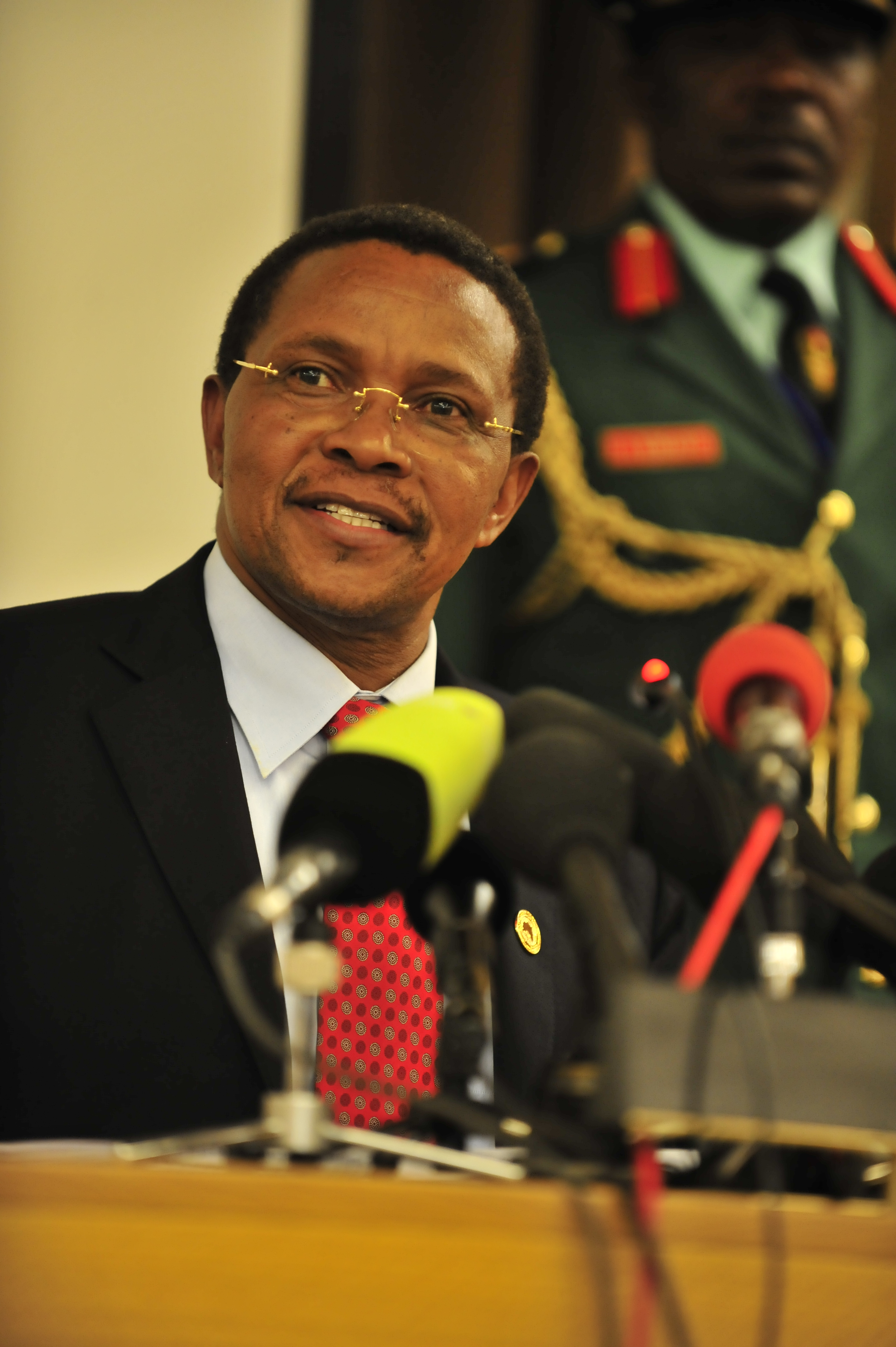 Jakaya Kikwete, the president of Tanzania, answers questions during a press conference in Addis Ababa, Ethiopia, Feb. 1, 2009.